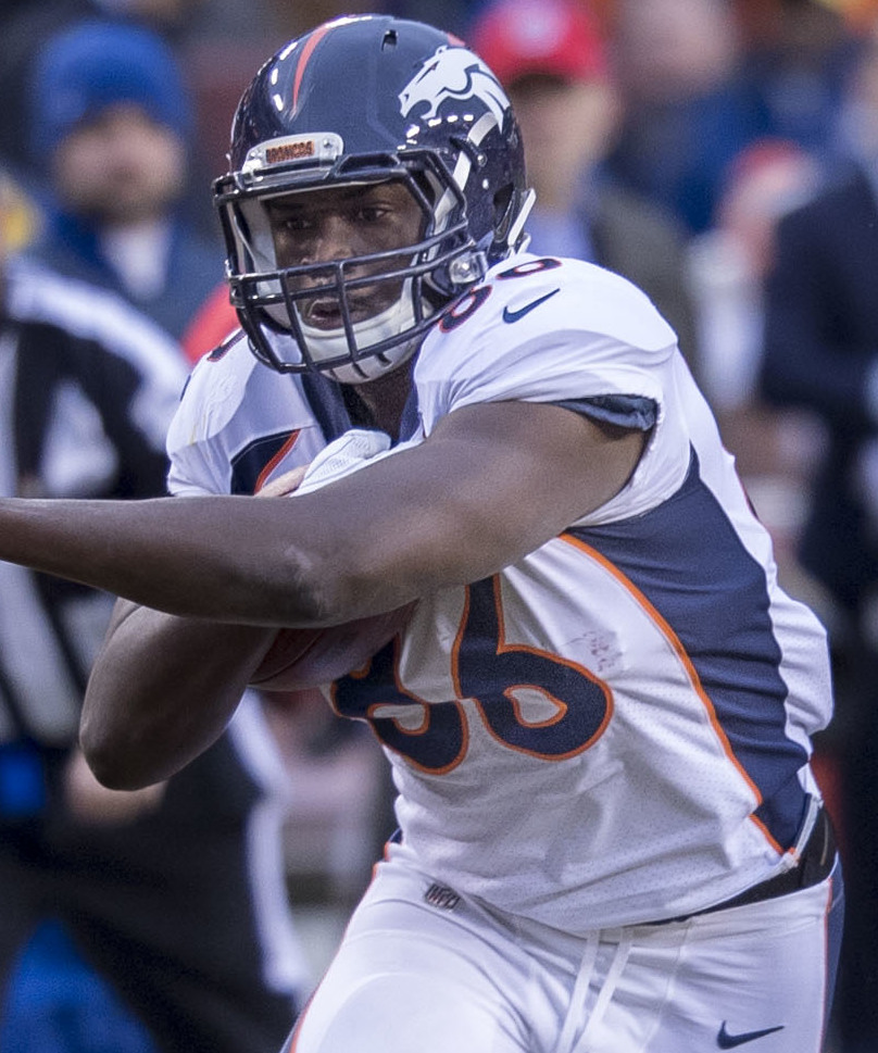 Broncos at Redskins 12/24/17